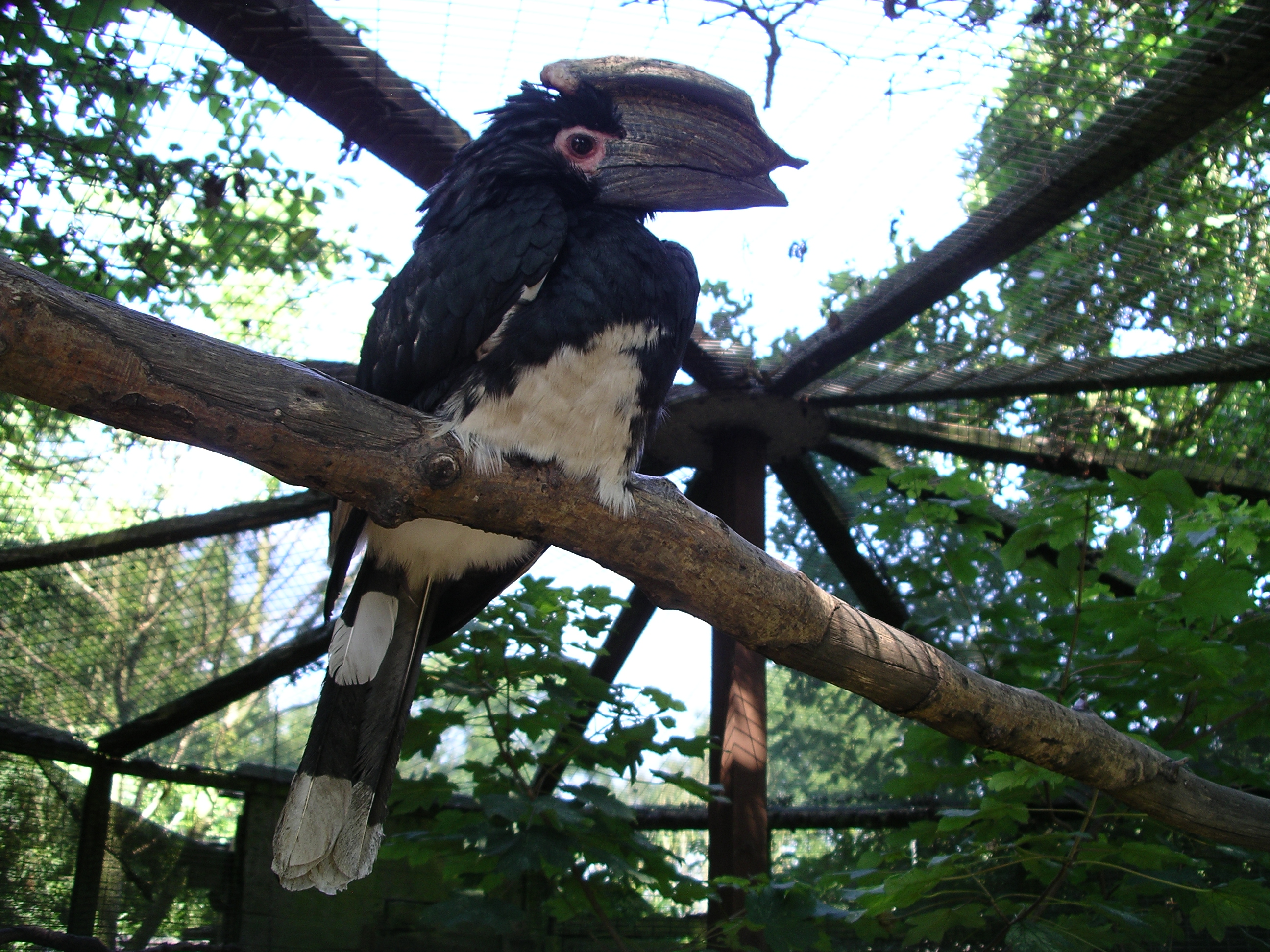 photo of a Trumpeter Hornbill in Tropical Birdland, Leicestershire, England.